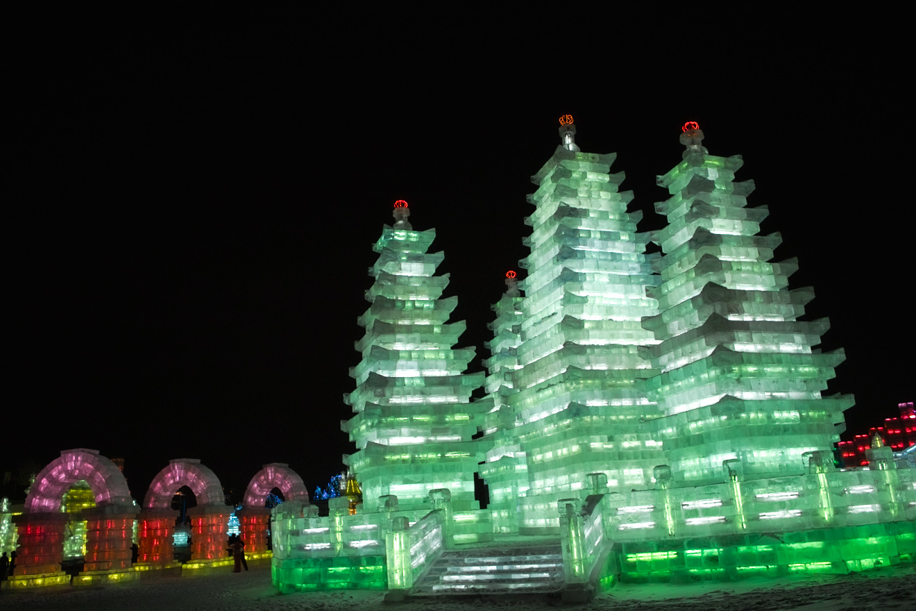 Pagoda, Ice Sculpture, Harbin, 2009